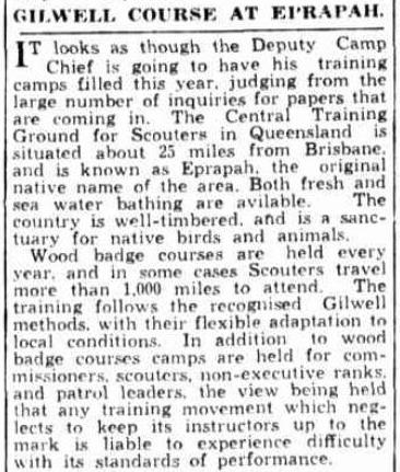 Newspaper clipping. Gilwell Scout training course, at Victoria Point, near Brisbane, Queensland, Australia. On the grounds of Eprapah. February 1937. Copyright has expired in Australia ( Lady Houston's Splendid Gift To Boy Scouts. The Telegraph (Brisbane, Qld. : 1872 - 1947), 15 February 1937, p. 11.